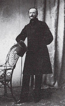 Photograph of the composer Baron Herman Severin Løvenskiold, Copenhagen, Denmark.